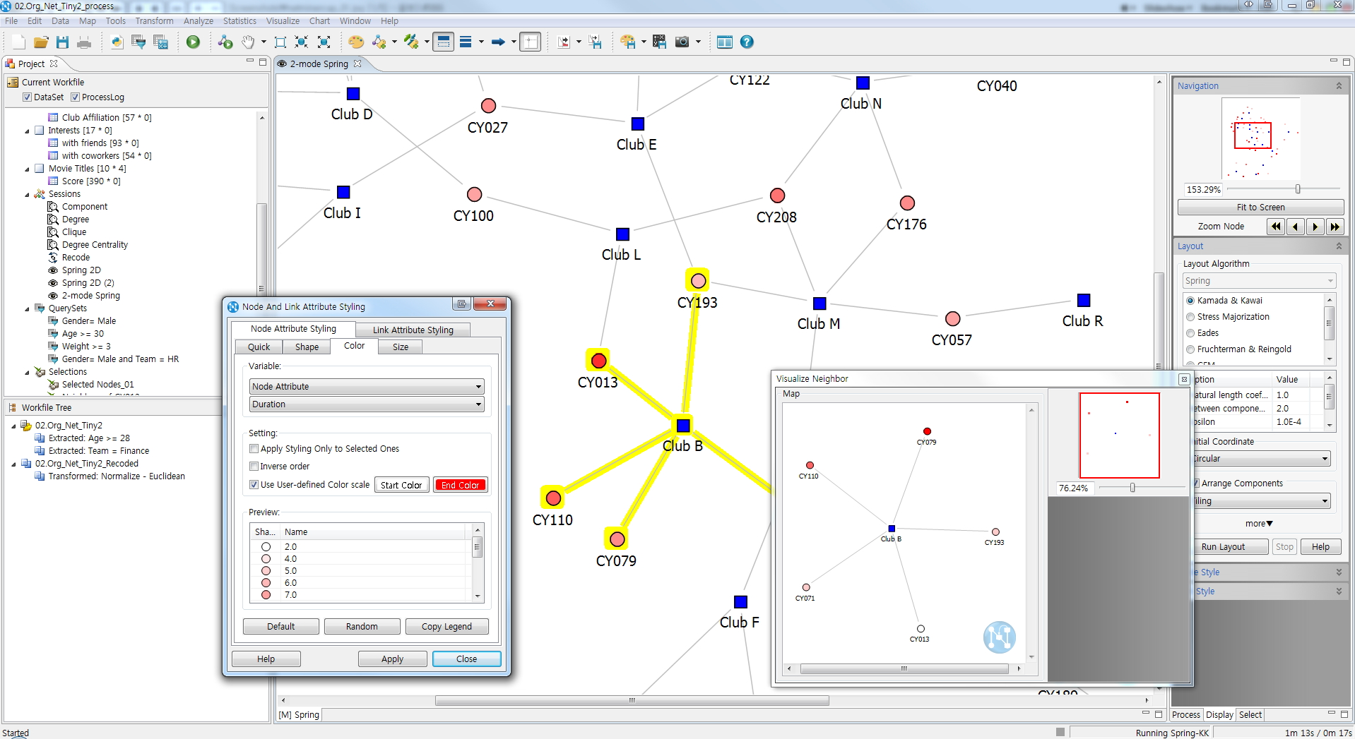 This image file is captured by Cyram Inc. who created the product netminer. This image file shows the main window of netminer.